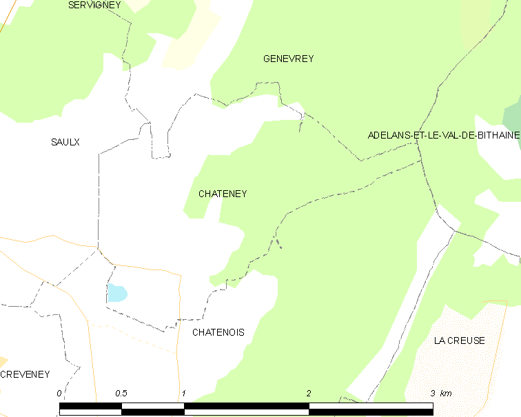 Map of French municipality